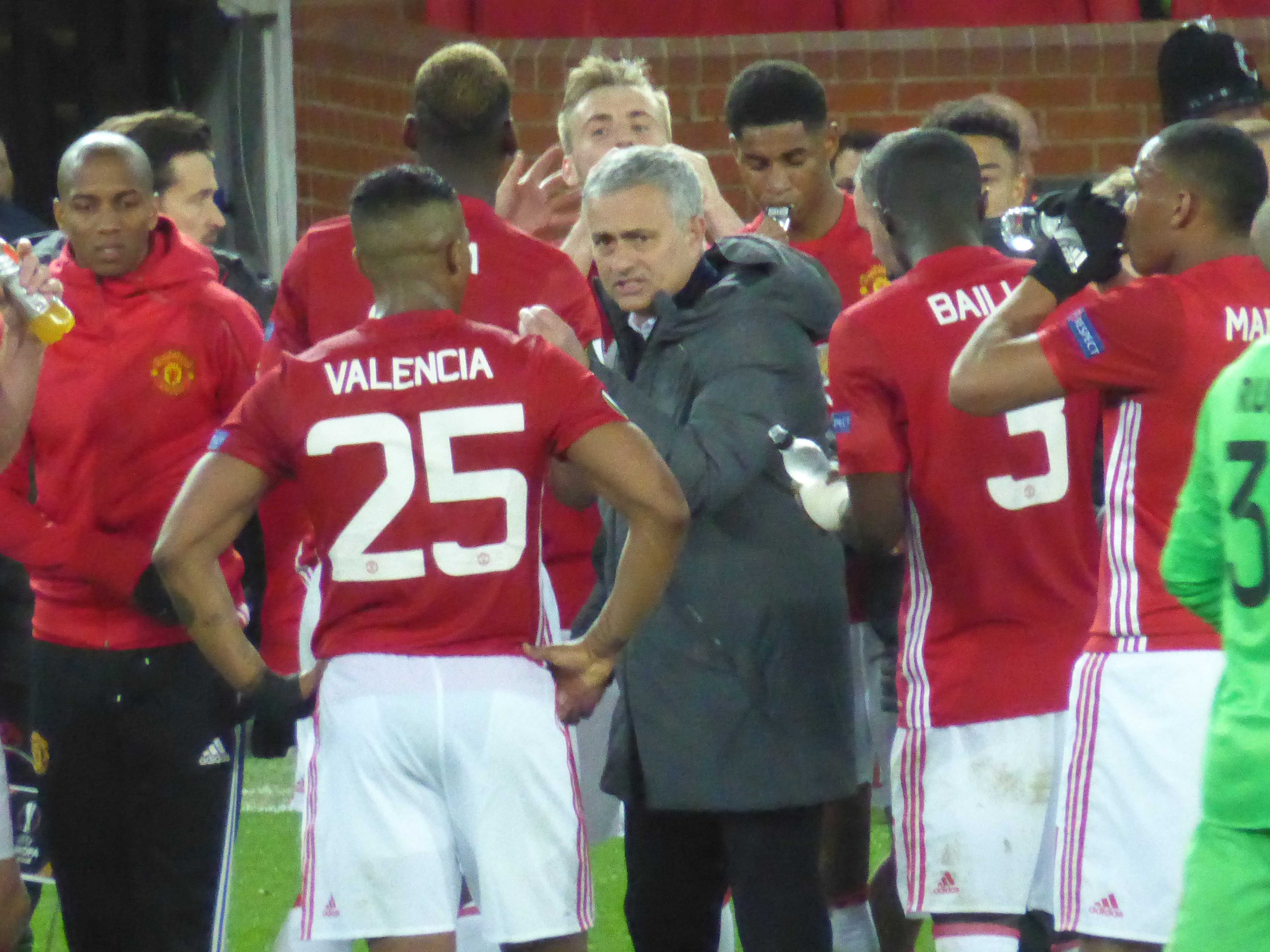 Manchester United v RSC Anderlecht (2-1), UEFA Europa League, Old Trafford, Manchester, Greater Manchester, England, 20 April 2017